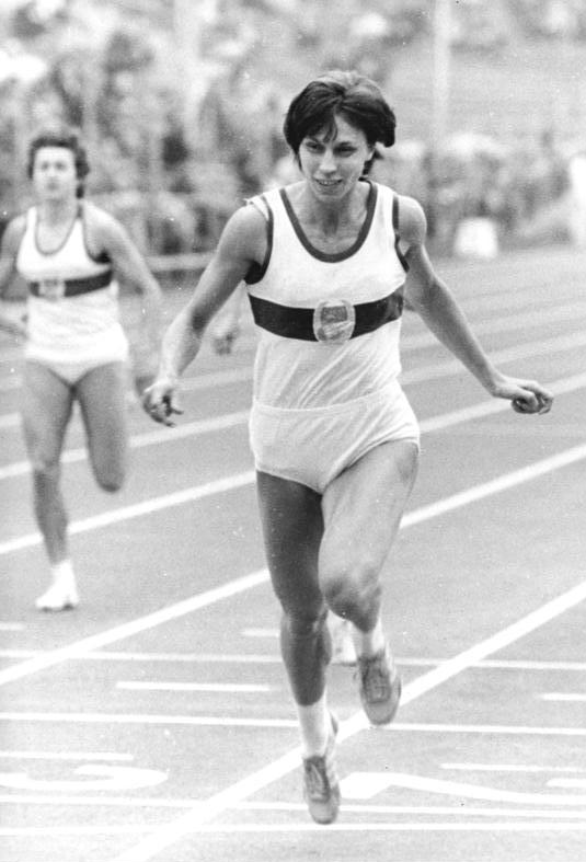 Marita Koch at the 1983 East German Championships in Athletics in Karl-Marx-Stadt (Chemnitz), Saxony, Germany. She was the winner in the 200-meter race for women. In the background, her club mate Silke Gladisch who was third.